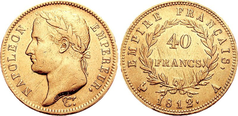 France, First Empire. Napoleon I. First reign, 1804-1814. AV 40 Francs (12.83 g, 6h). Engravers: Droz et Tiolier. Paris mint. Dated 1812. tirage 692 625 (VG pag. 276) Laureate bust right 40 / FRANCS. in two lines, all within laureate wreath, 1812 below. VG 1084; KM 696.1; Friedberg 505. EF, minor marks, underlying luster.